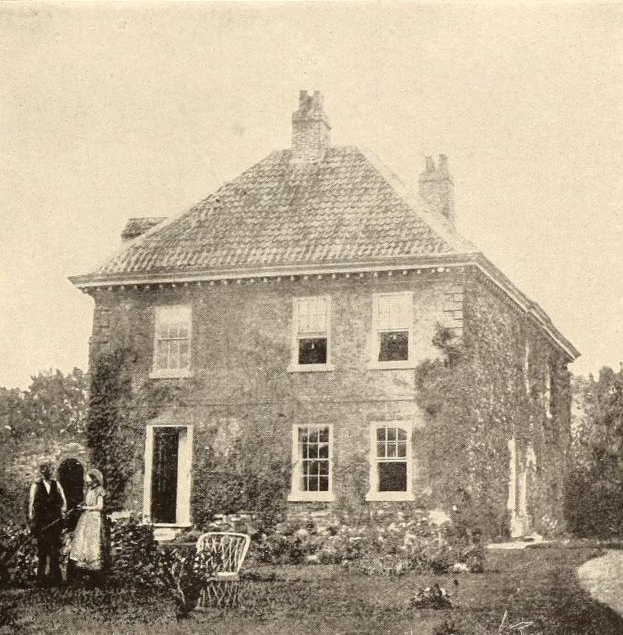 The Epworth Rectory famous for the alleged haunting in 1716-1717.